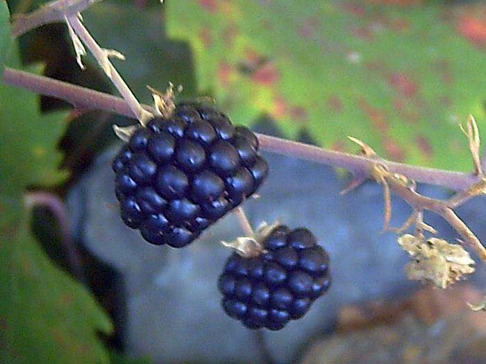 A own work release by Javier martin gathered Sierra Madrona up, 20 august 2006, donated to Wikipedia fundation. Rubus ulmifolius, de Sierra Madrona de Solana del Pino